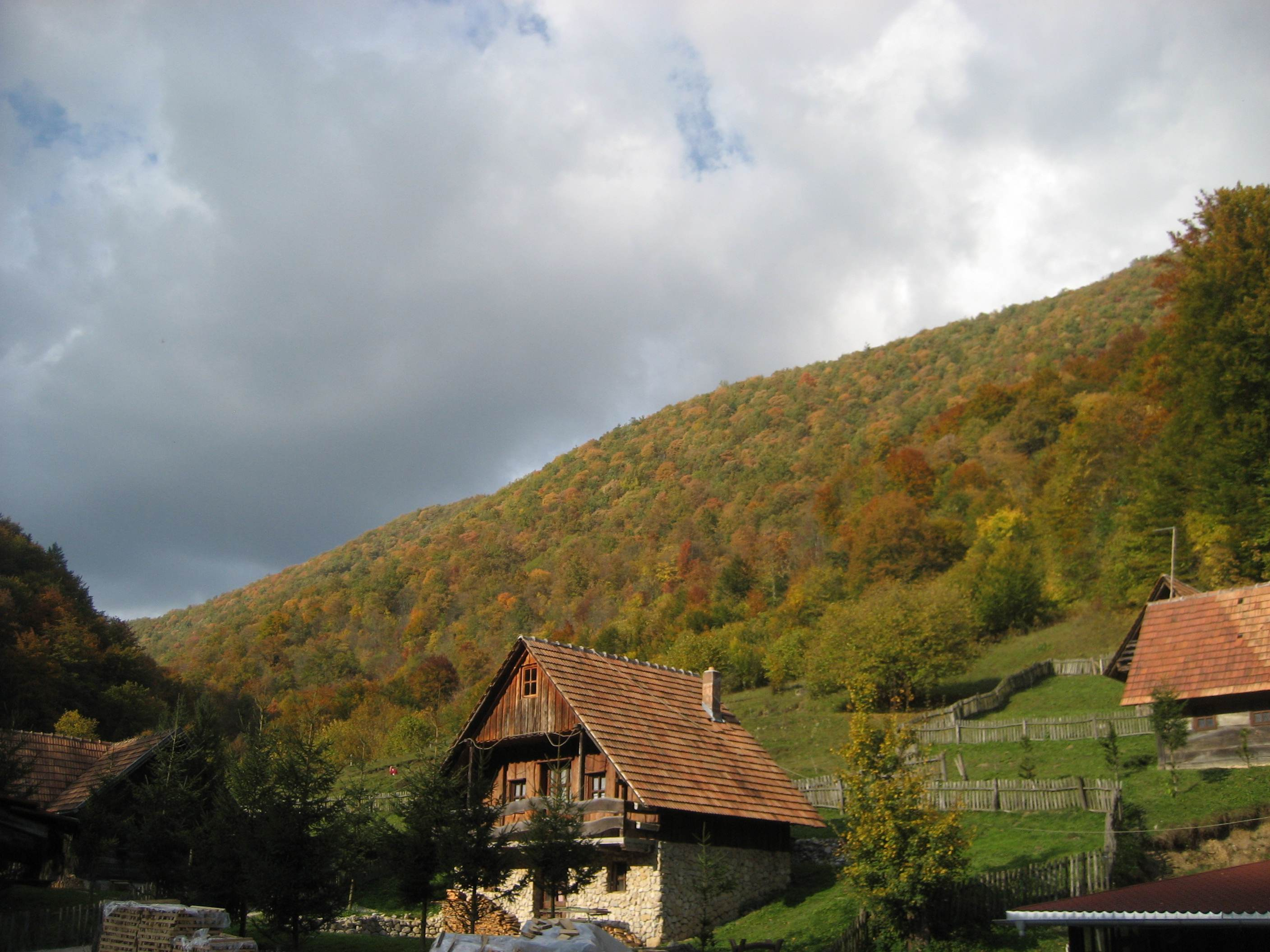 ekoselo zumberak, croatia